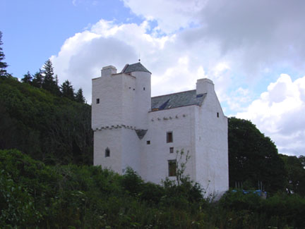 Barholm Castle, Gatehouse of Fleet, Dumfries and Galloway, Scotland. Restored from a ruinous state 2003-2005.